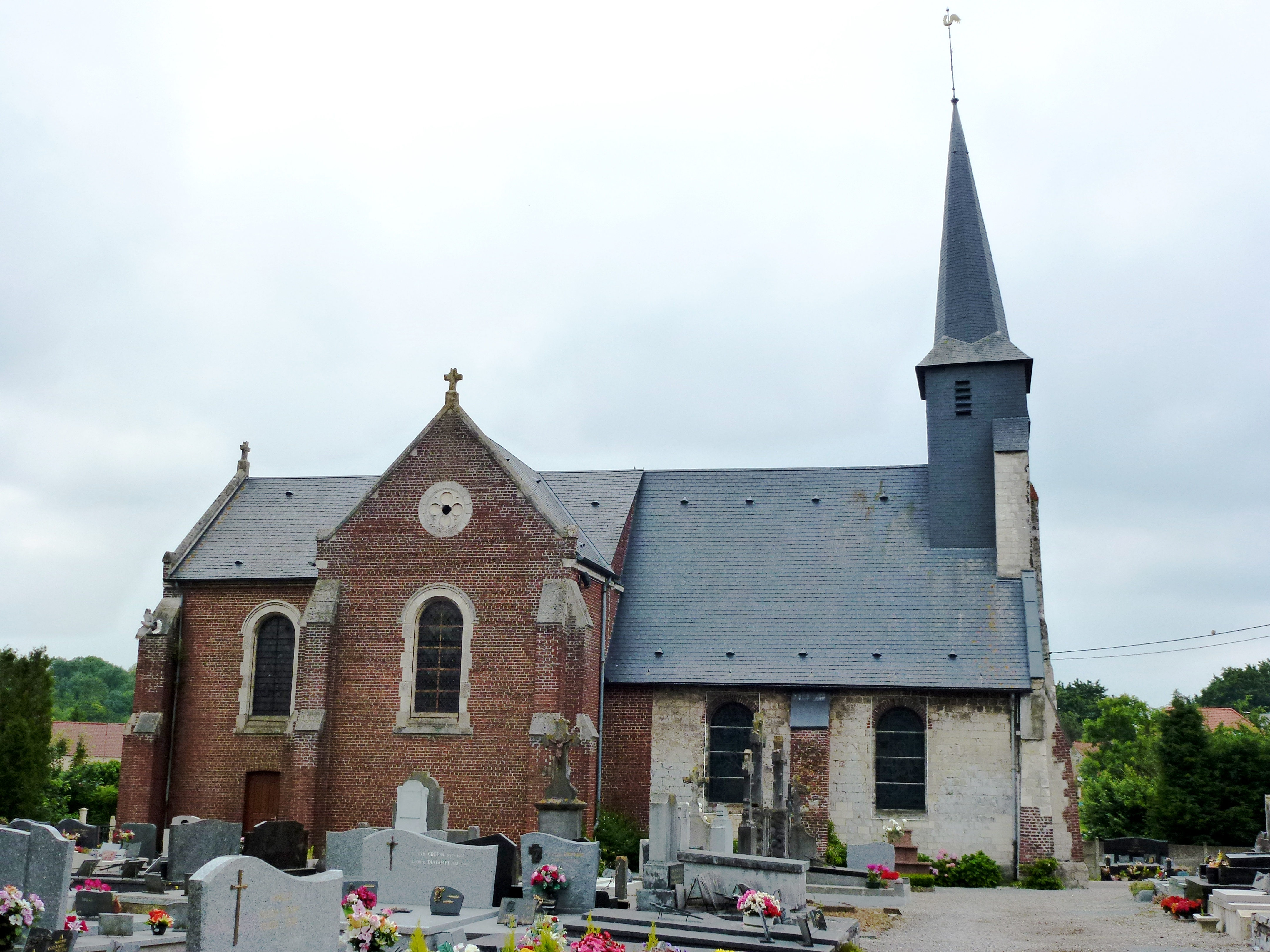 Lières (Pas-de-Calais) église Notre-Dame et Saint-Adrien